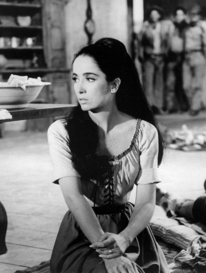 Linda Cristal as Victoria from the television program The High Chaparral.